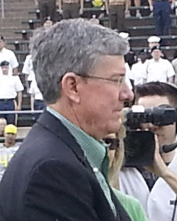 Oregon National Guard Follow 140503-Z-TK422-1847 An Oregon Army National Guard Soldier with the TAG's Select Honor Guard presents the United States flag to University of Oregon President Michael R. Gottfredson, (left), prior to the kick-off of the Ducks' spring opening game, held at Autzen Stadium in Eugene, Ore., May 3. The Oregon Soldiers were joined by members of other military services as part of the University of Oregon's tribute to military members. Photo by Capt. Brandon Hill, 142nd Fighter Wing.